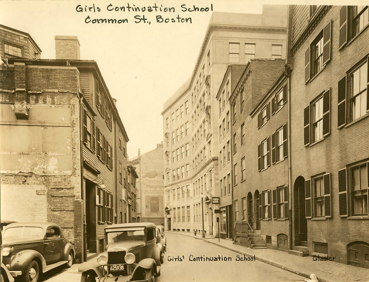 Girls' Continuation School: Exterior